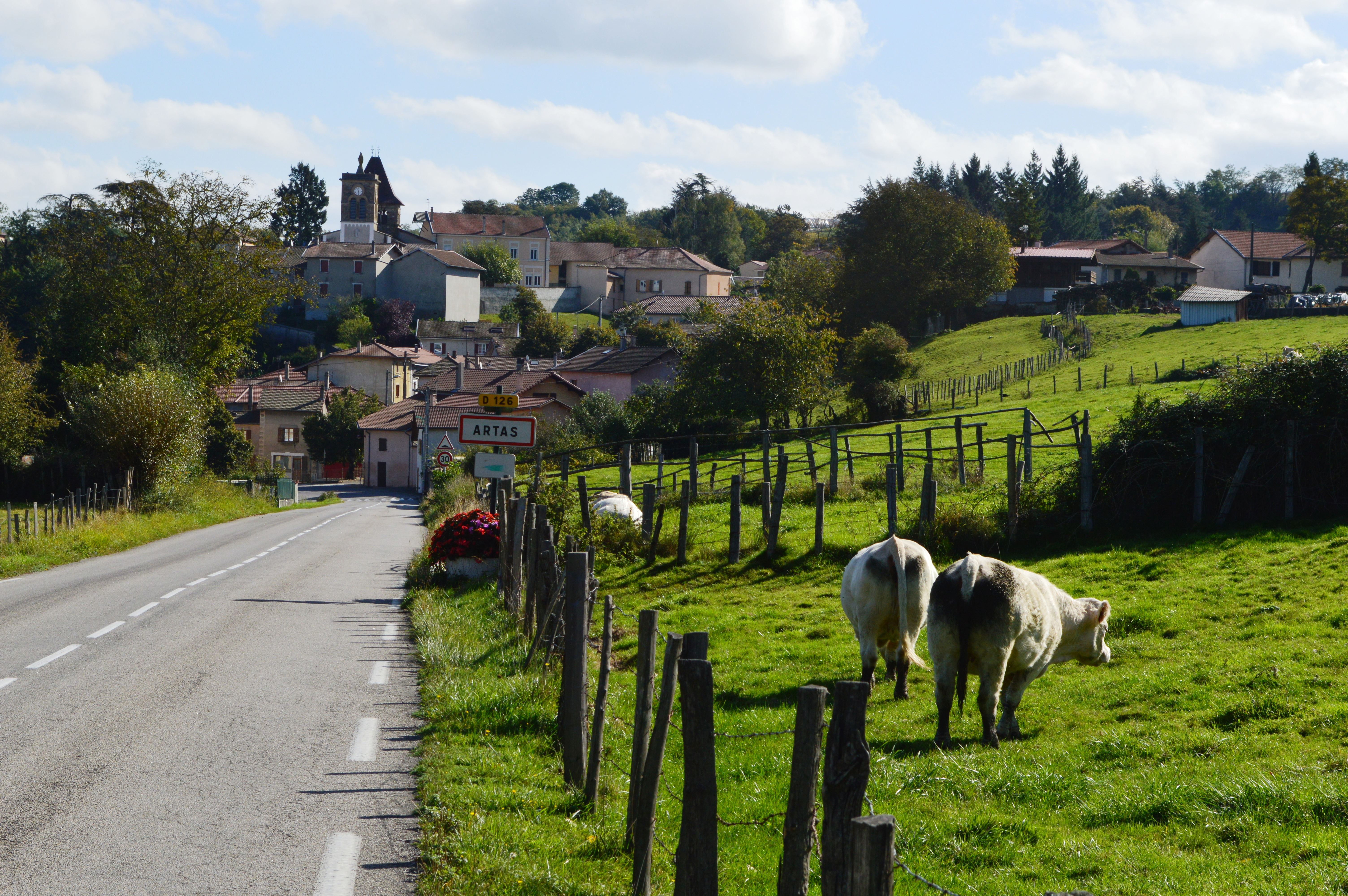 The entry to Artas